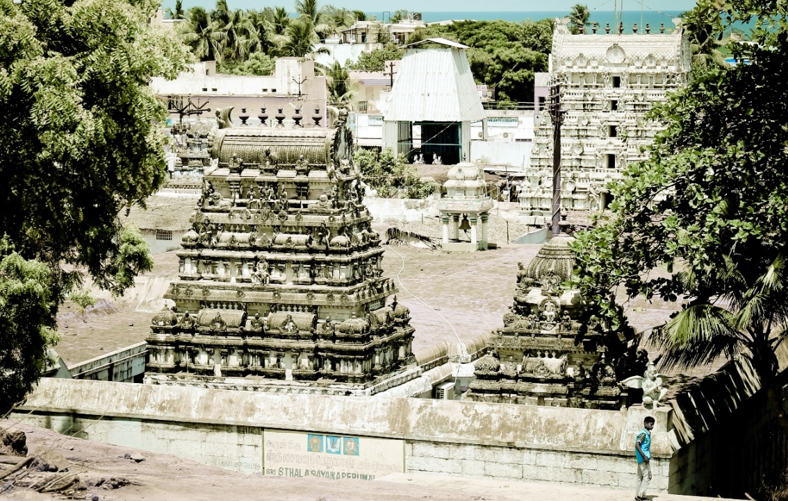 A famous temple situated in Mahabalipuram, Tamilnadu